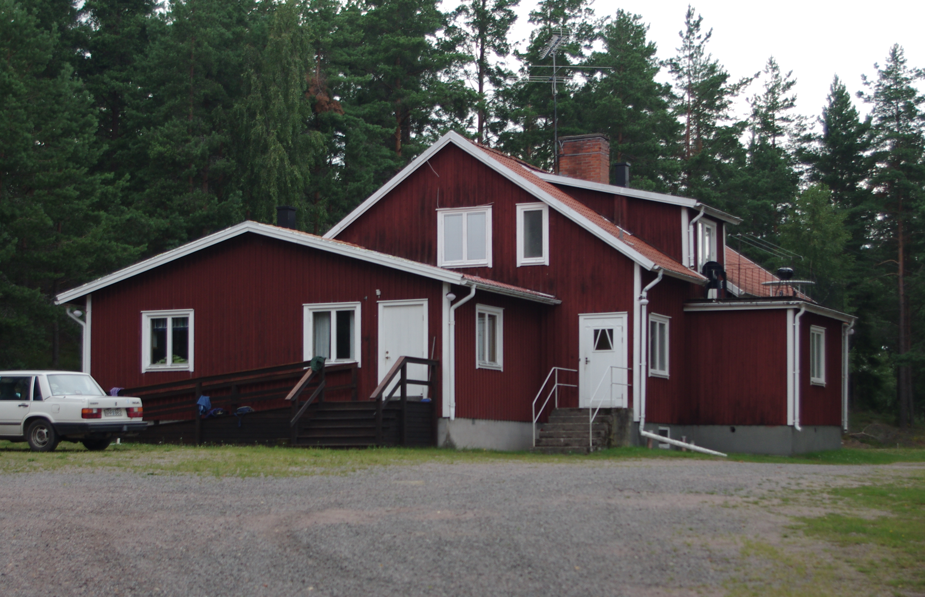 Velinga, a small village in Tidaholm municipality in Västergötland, Sweden.